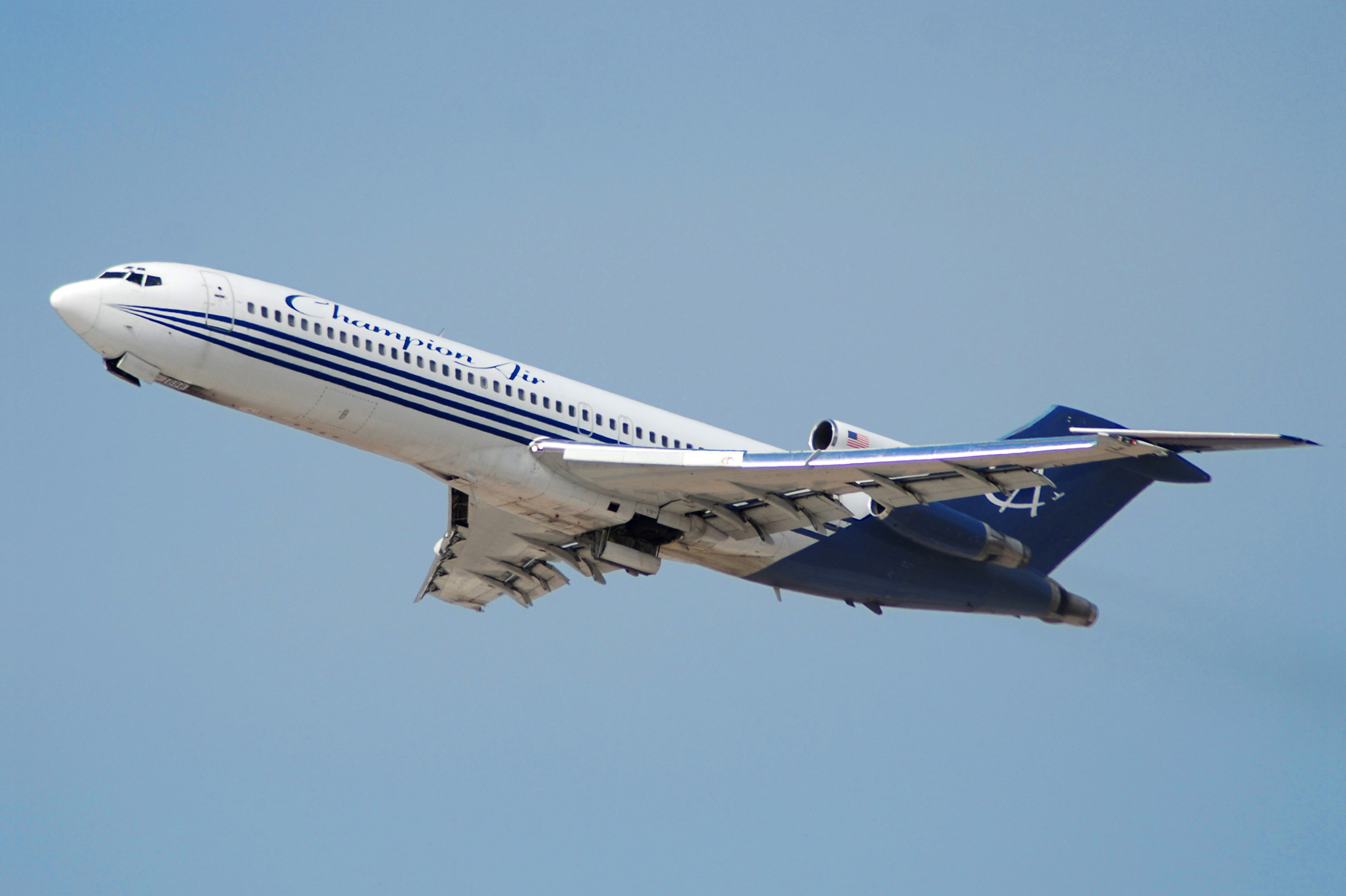 Champion Air Boeing 727-2S7/Adv aircraft (N686CA) at Los Angeles International Airport (LAX/KLAX)